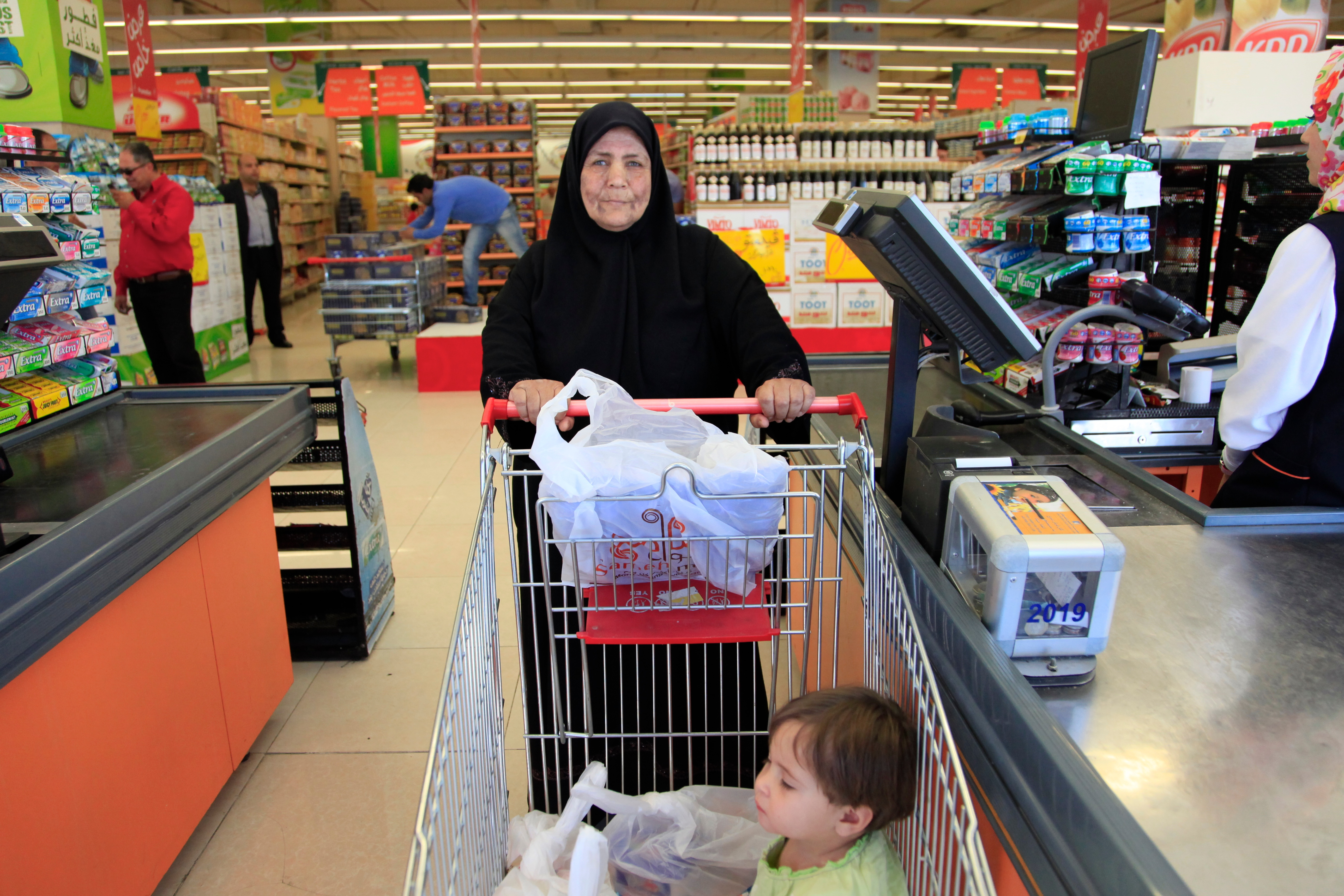 A Syrian refugee woman completing her shopping in Amman, Jordan. Food vouchers from the World Food Programme, funded by UK aid, are providing a lifeline for some of the nearly 600,000 Syrian refugees in Jordan. Find out more about UK support for the Syria humanitarian crisis